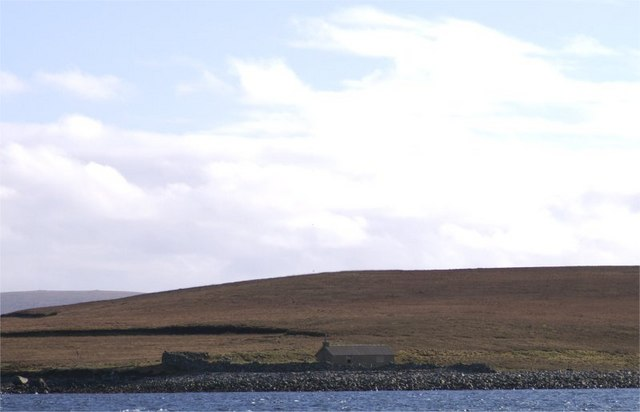 Linga, Yell in Bluemull Sound. The small hut at the north end of the island. Shetland Islands. Please note that Linga is a very common Shetland name -see Linga (disambiguation) for more details.